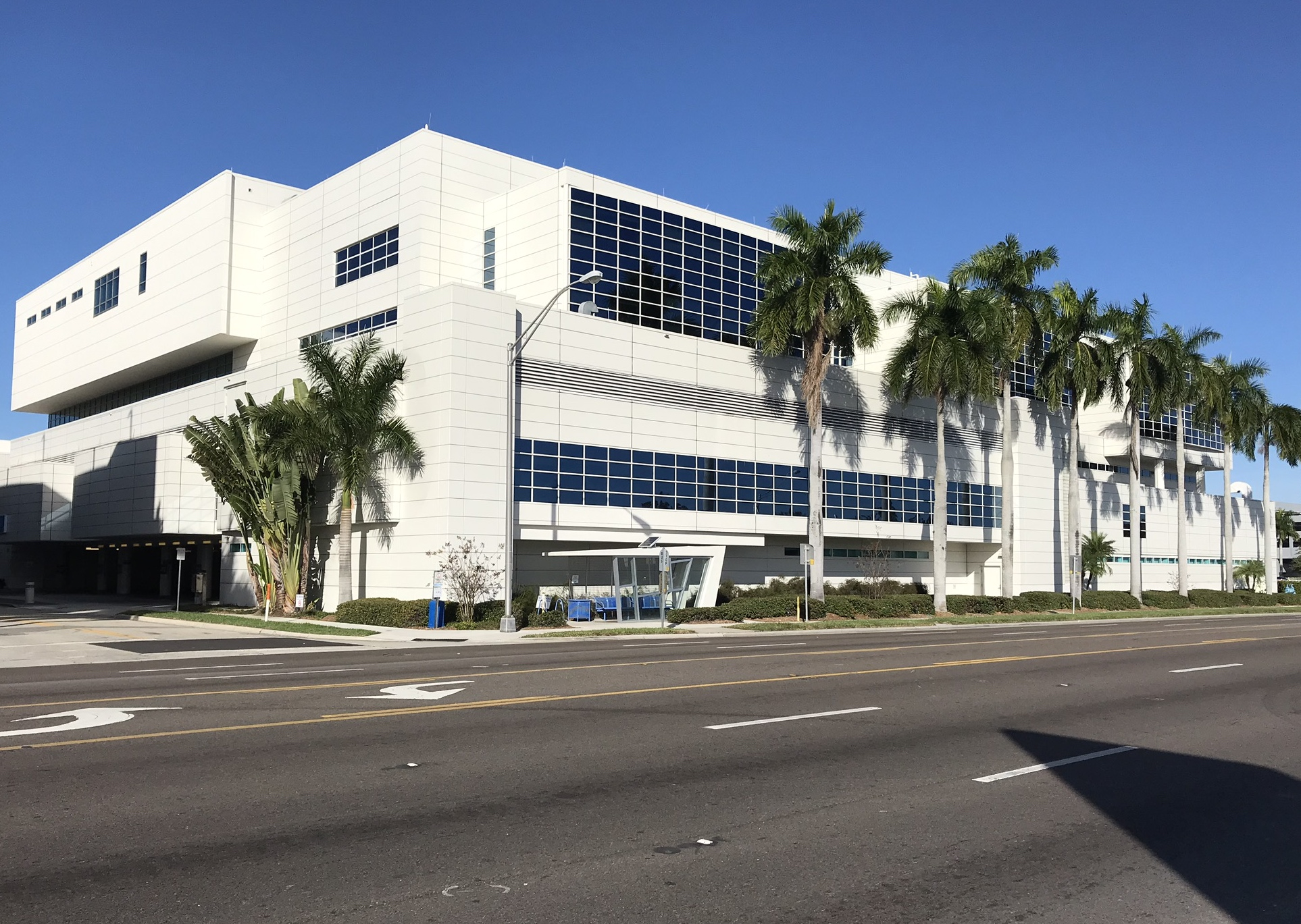 Sarasota Memorial Hospital Critical Care Center (Guy Peterson, Architect, FAIA)